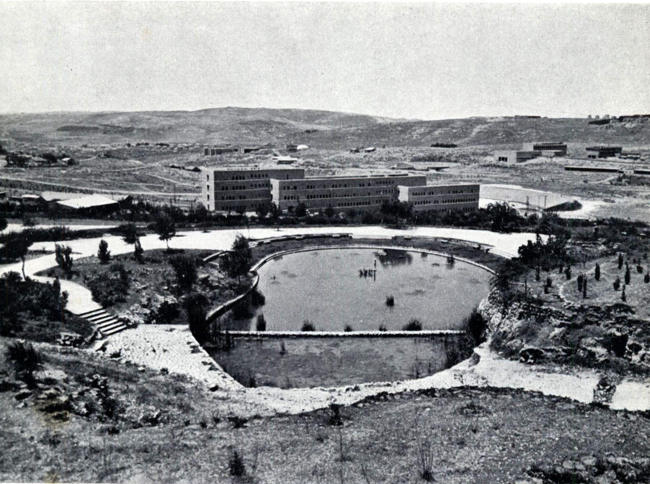 Jerusalem - Wohl rose park - מע"צ stand for Ma'atz, initials for Makhleket Avodot Tziburiot or Israeli Public Works Department, today the National Roads Company of Israel.